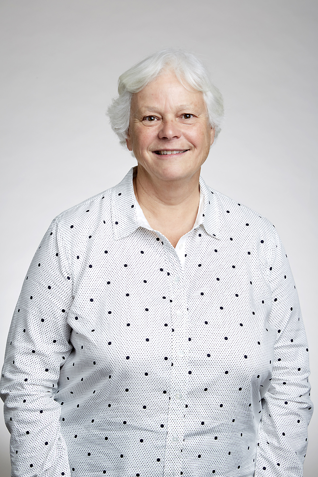 Susanne von Caemmerer is a professor and plant physiologist in the Division of Plant Sciences, Research School of Biology at the Australian National University; and the Deputy Director of the ARC Centre of Excellence for Translational Photosynthesis. Attribution: The Royal Society